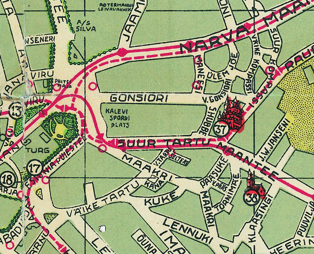 Historical sport venue of Kalev on map of Tallinn in 1930